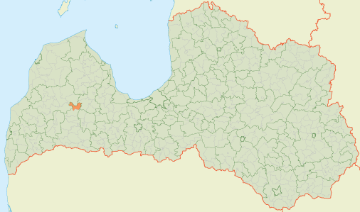 Location of Šķēde Parish in Latvia